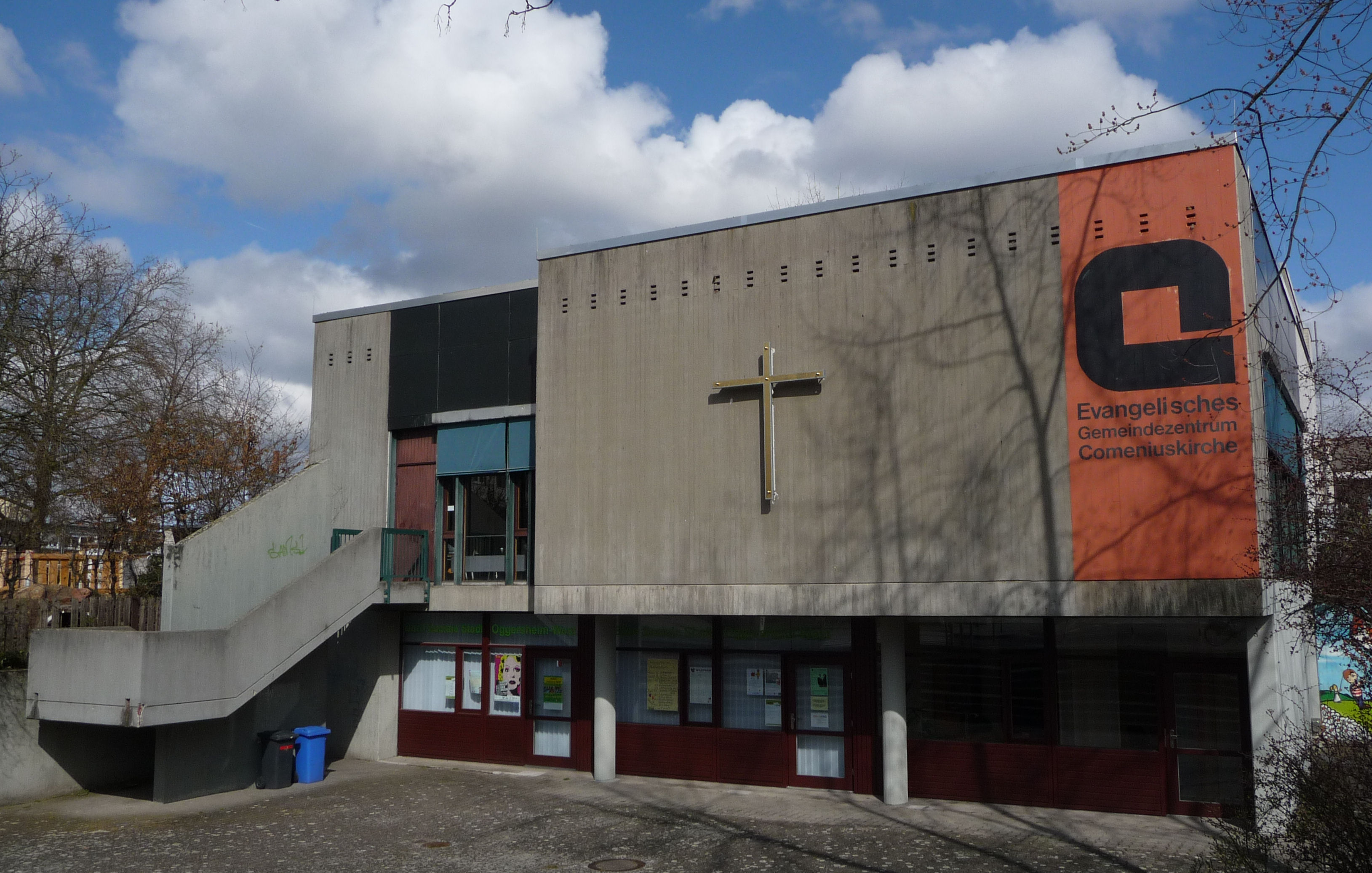 Church in Ludwigshafen, Germany